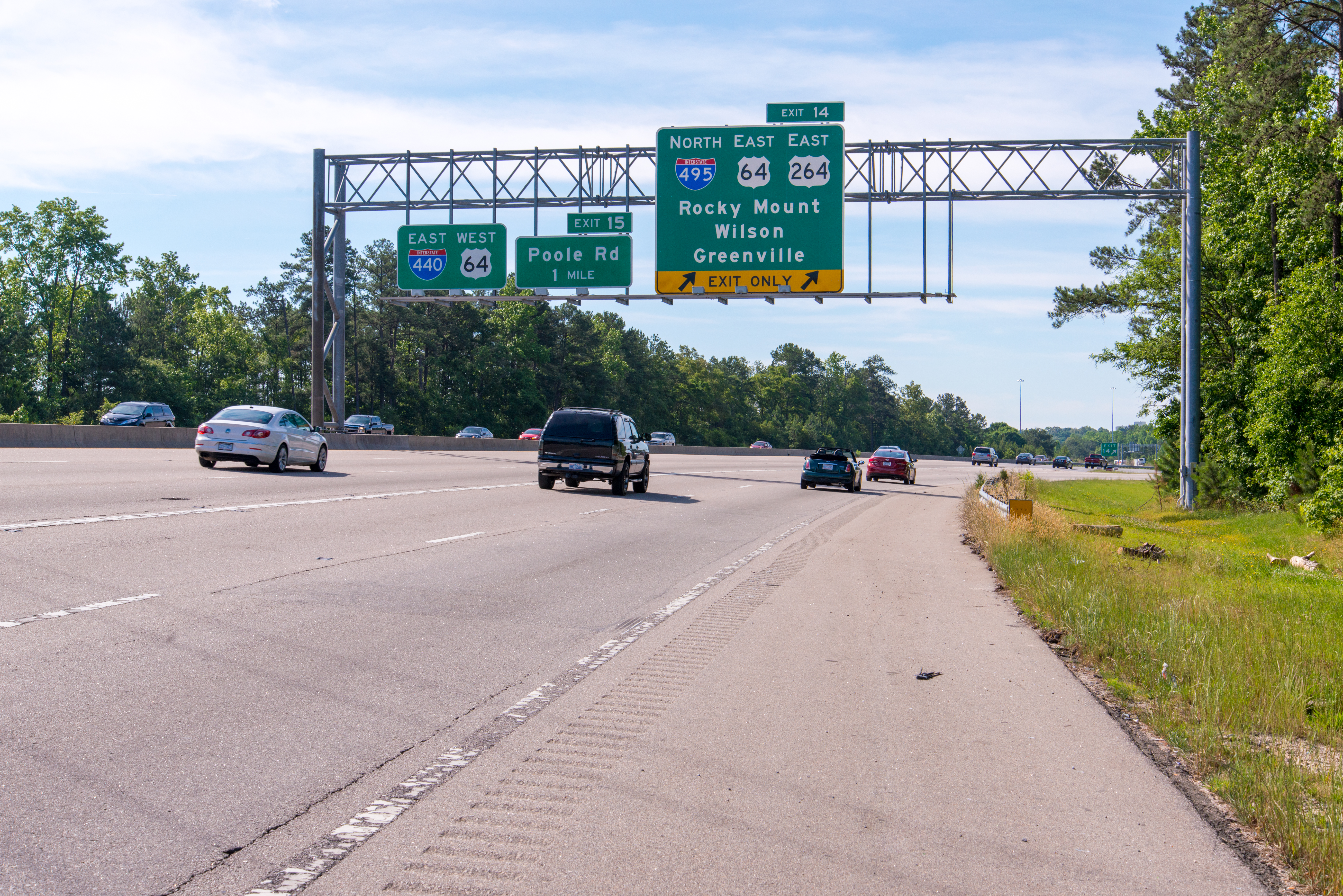 Exit 14 onto I-495, US 64 and US 264 from I-440 in Raleigh, North Carolina.